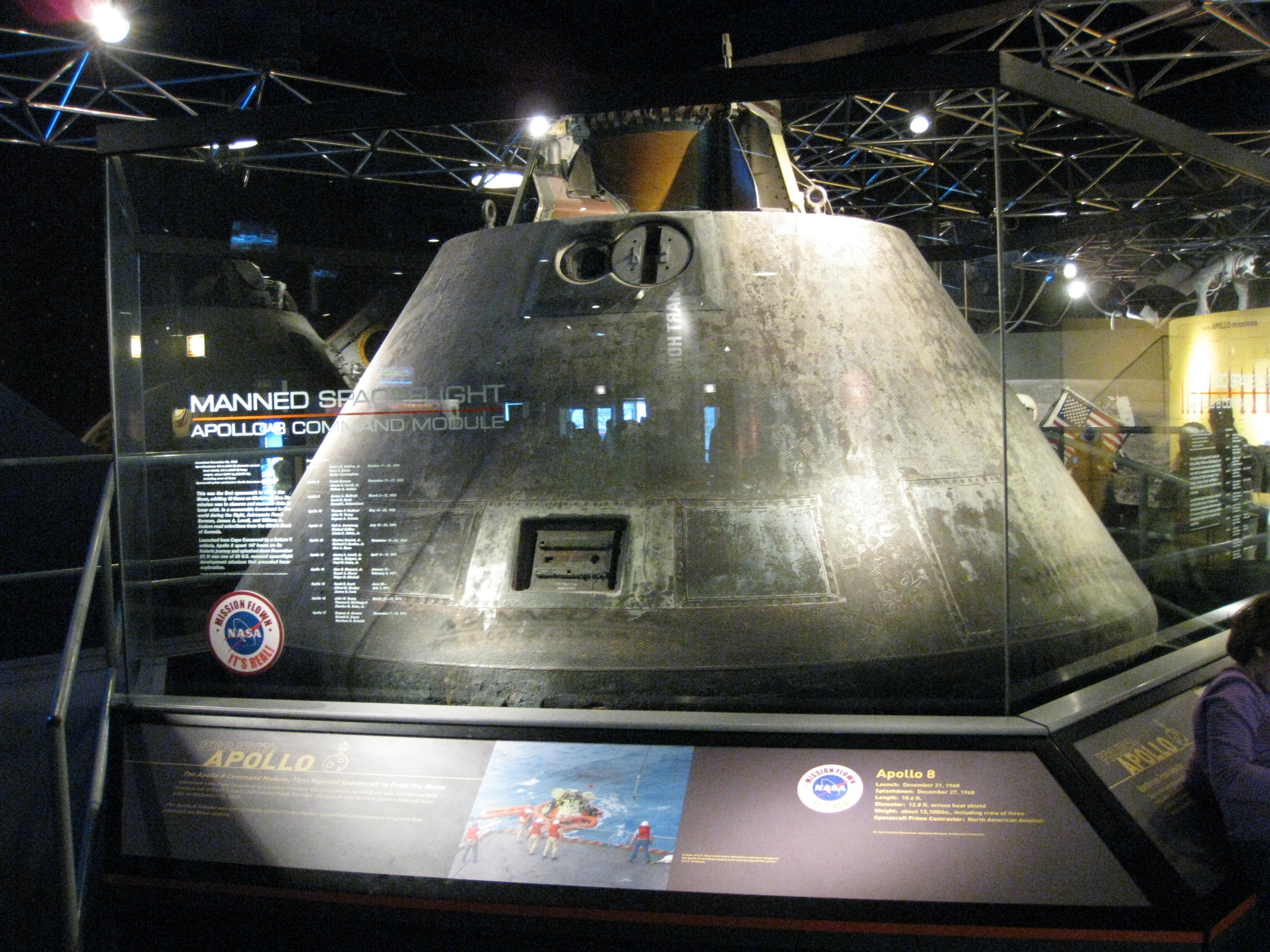 Apollo 8 Command Module in Museum of Science & Industry, Chicago, IL